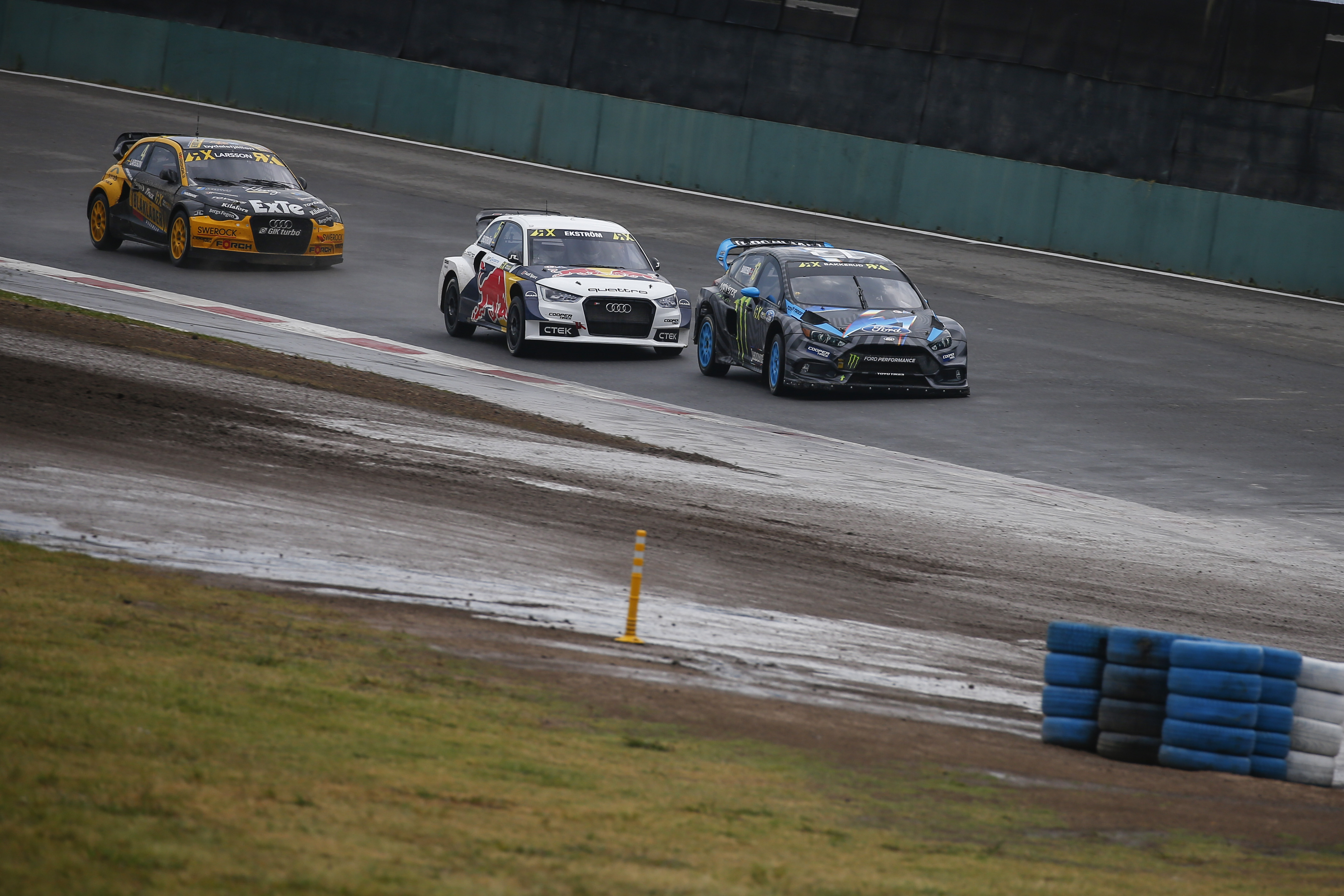 2016 FIA World RX Rallycross Championship / Round 12 / Rosario, Argentina / November 25 - 28, 2016 // Worldwide Copyright:Tony Welam/EKS/McKlein